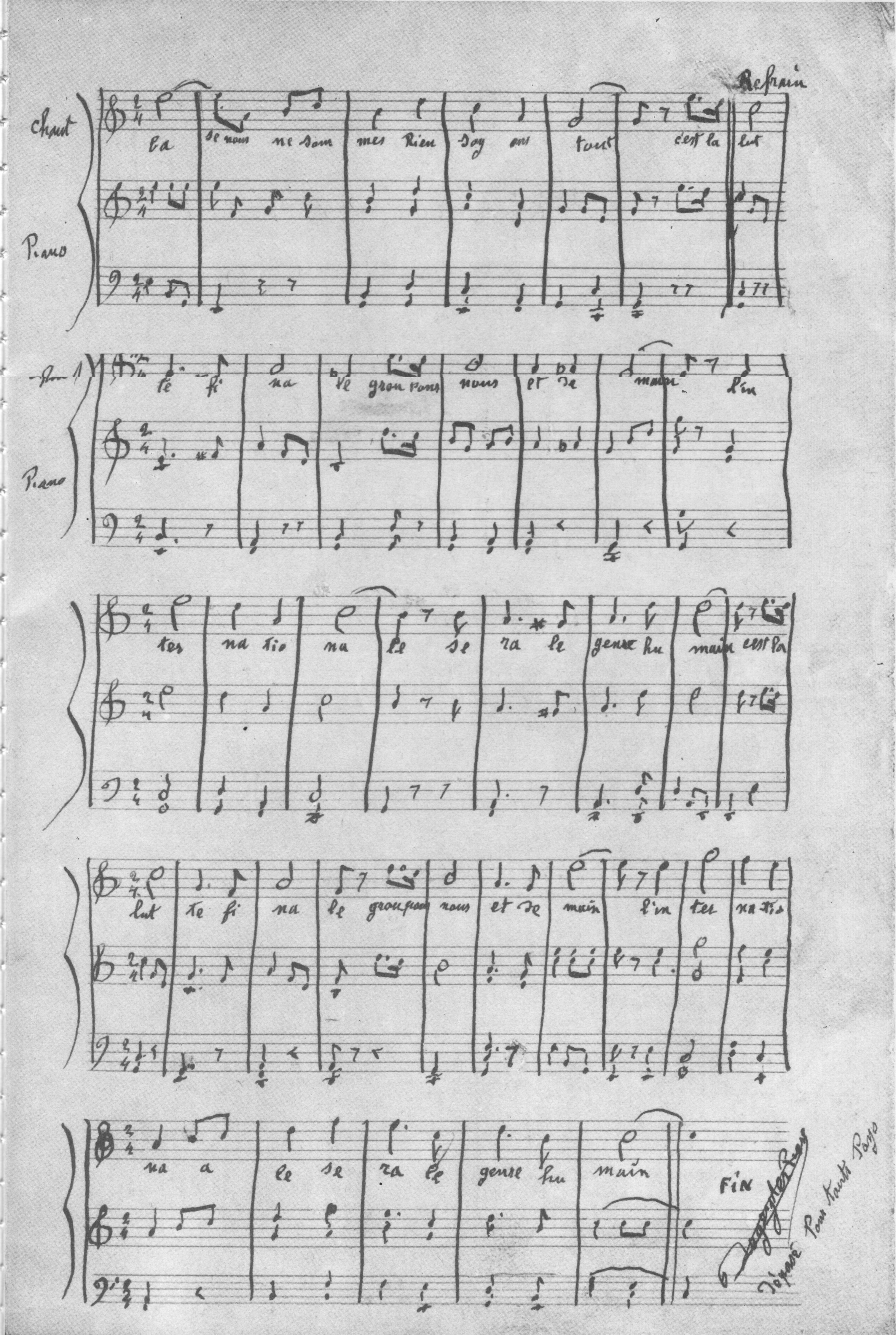 The original of the facsimile of the International was in the Institute for Marxism-Leninism of the Socialist Unity Party of Germany. Accourding to the title page it is an arrangement for voice and piano, a handwritten copy mad by the composer and signed by him. Further, it is stated that Pierre Degeyter composed the tune to verses by Pottier in 1888 an that the copyright has been applied for in all countries. That the addition of fait à Lilleen 1888 refers to the year of composition an not to the present version is proved by the fact, that Degeyter first began to make applications for the sole legal right of copyright in 1906, the signature however, demonstrates that copyright has already been applied for. It is therefore almost certain that this copy was made sometime after 1906.